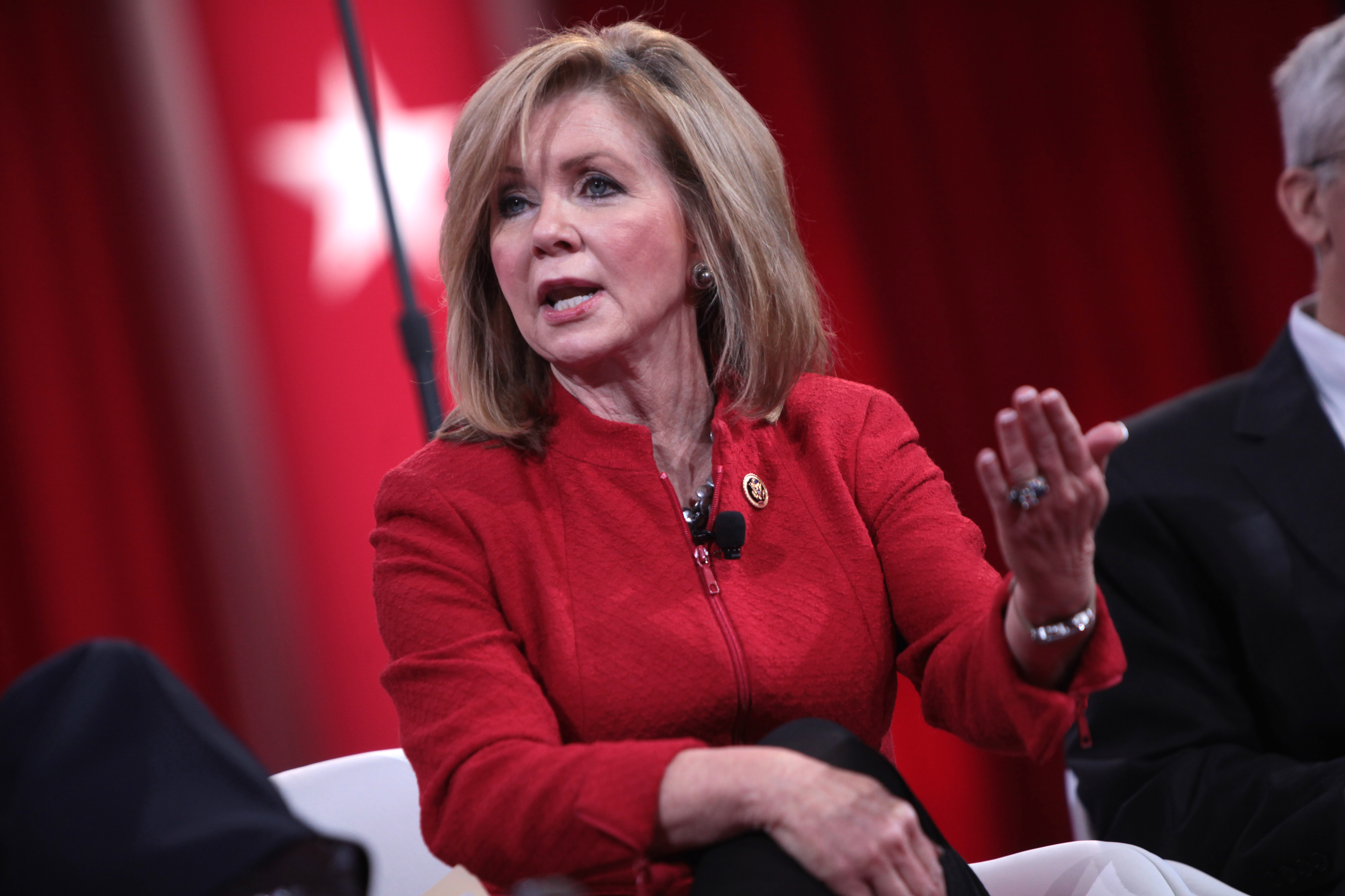 Marsha Blackburn speaking at CPAC 2015 in Washington, DC.